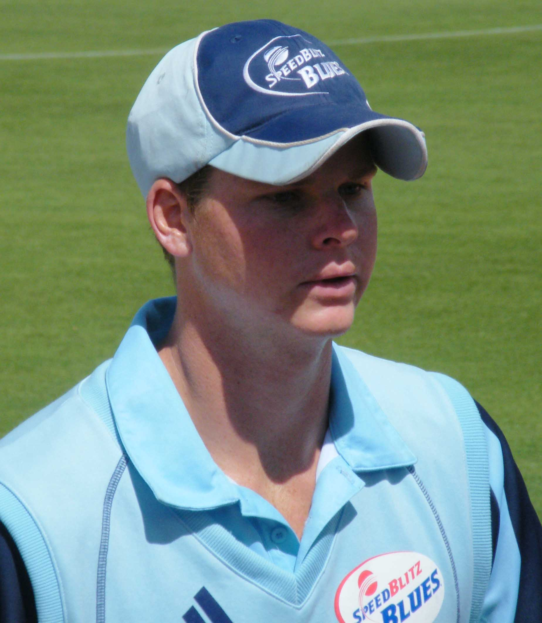 NSW Cricketer Steve Smith - NSW v Tasmania, Hurstville Oval. Saturday 29 November 2008.